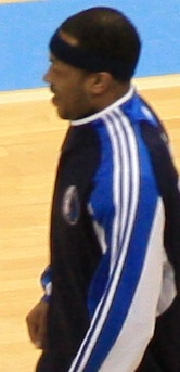 Antoine Wright of the Dallas Mavericks players warming up before game 5 of the second round series vs. Denver Nuggets on May 13, 2009.